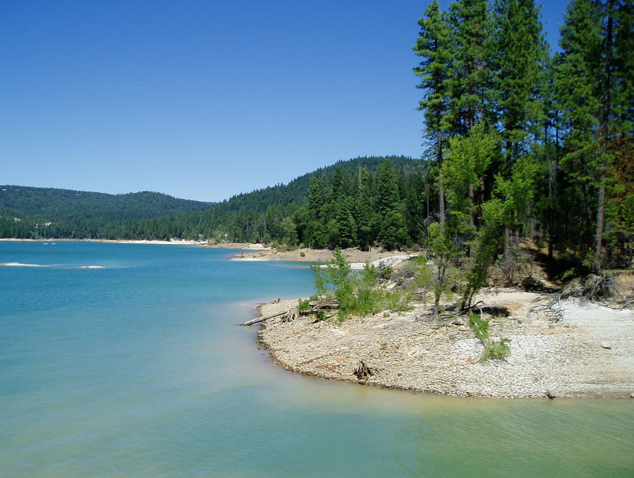 Scott Flat Lake, Nevada County, California